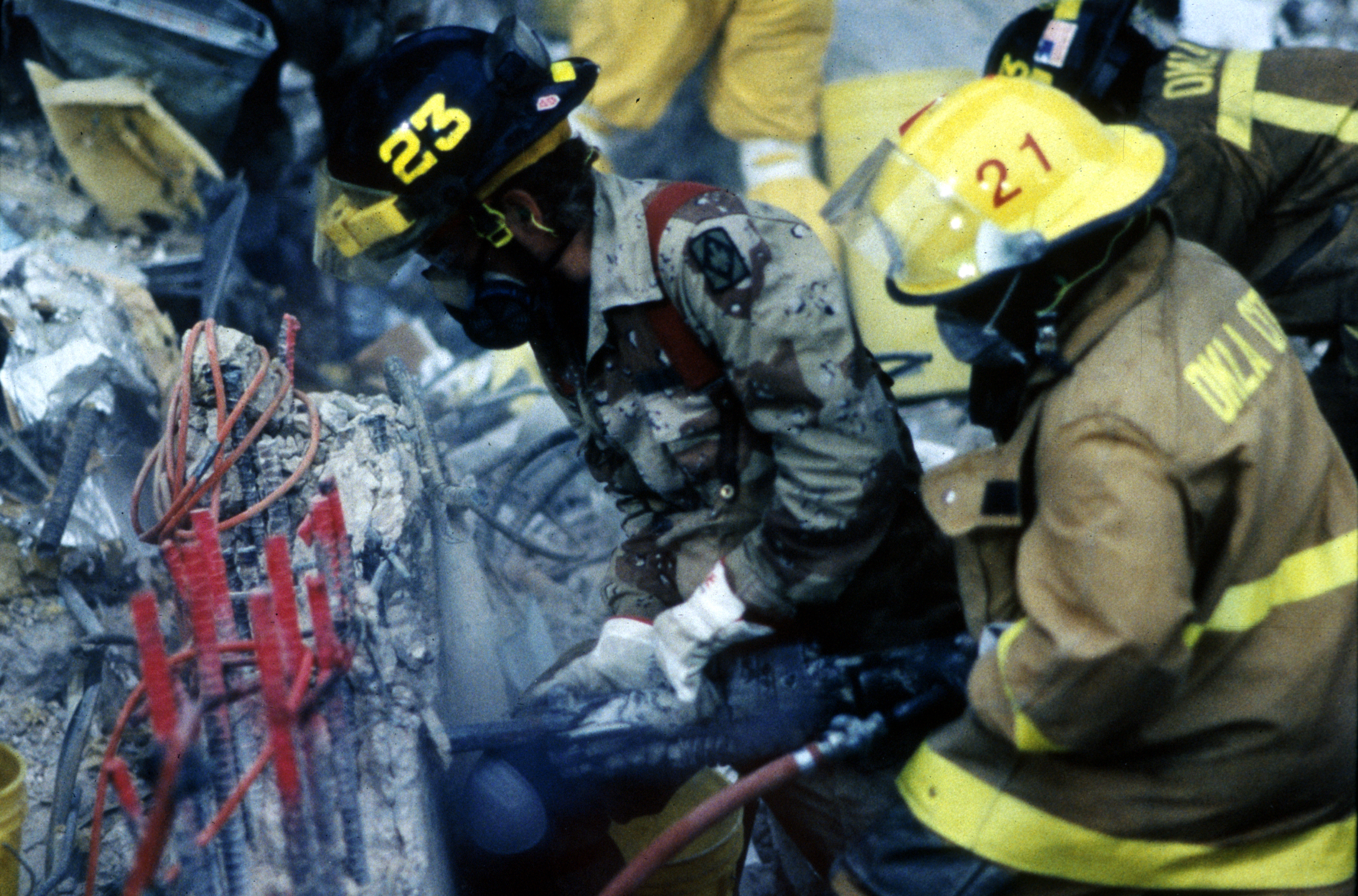 Oklahoma City, OK, April 26, 1995 -- Search and Rescue crews work to save those trapped beneath the debris, following the Oklahoma City bombing. FEMA News Photo